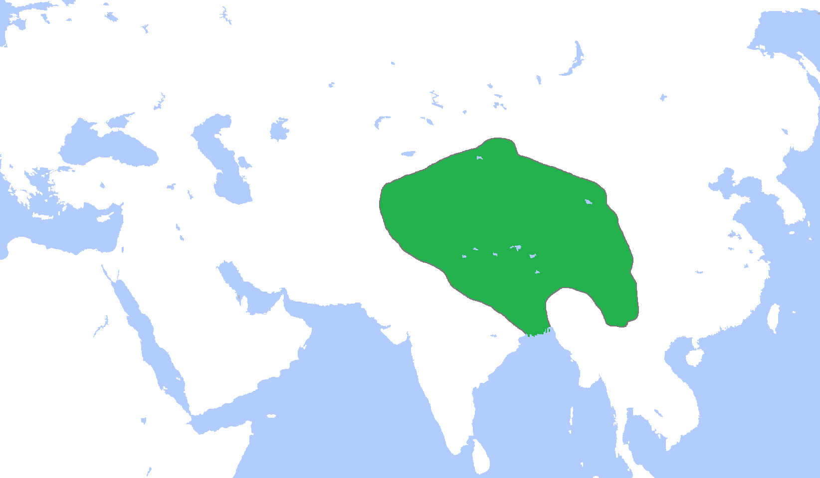 Locator map of Tibet at its peak, c. AD 800. (Partially based on Atlas of World History (2007) - The World 750-1000, map)